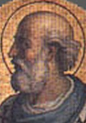 Pope Eugenius I